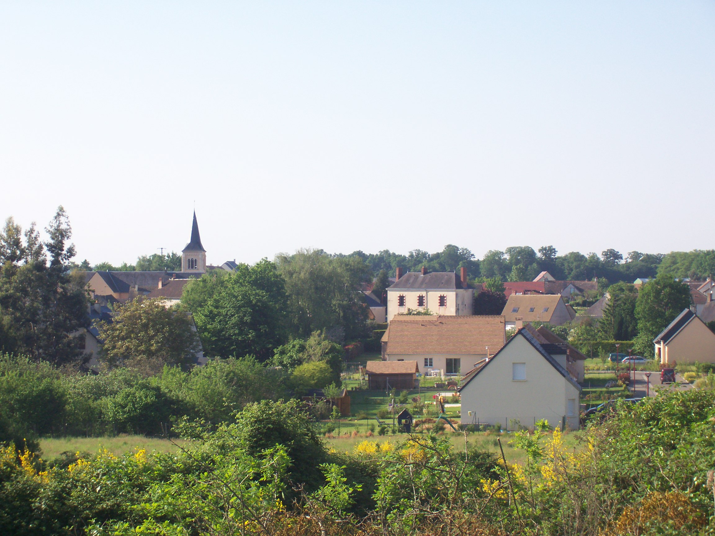 Village of Saint-Corneille